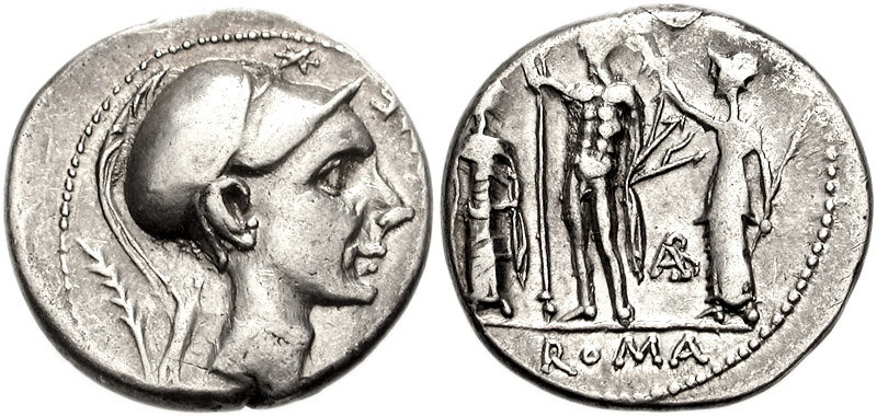 Cn. Cornelius Cn.f. Blasio 112-111 BC. AR Denarius (18mm, 3.87 g). Helmeted head of Scipio Africanus right; prow stem behind Jupiter standing left between Juno and Minerva; P in right field. Crawford 296/1d; Sydenham 561b; Cornelia 19. Good VF, slightly off center.